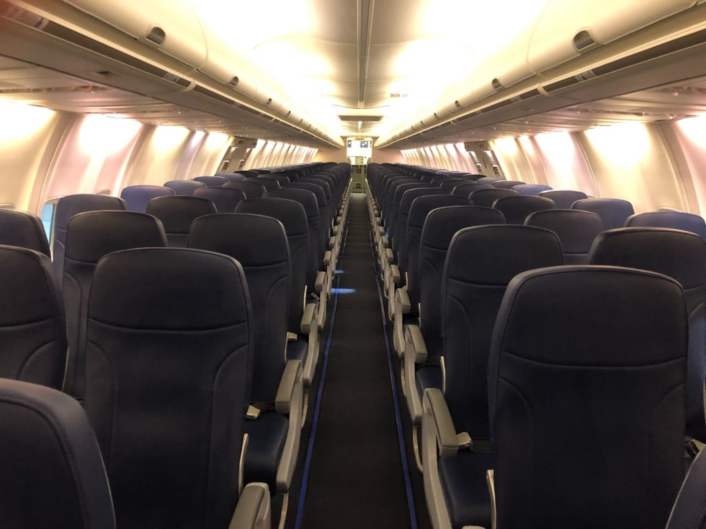 New Sun Country Seats in 2019